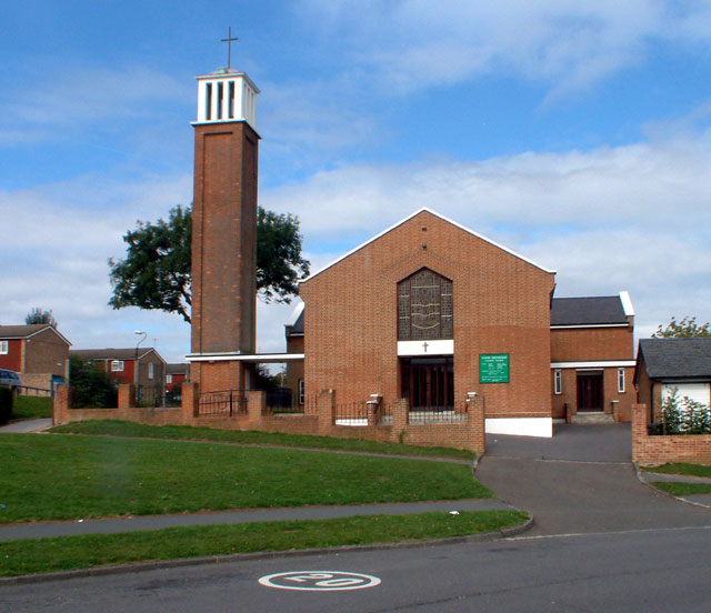 Roman Catholic church of the Good Shepherd, Dunley Drive, New Addington, south London (formerly Surrey), seen from the south